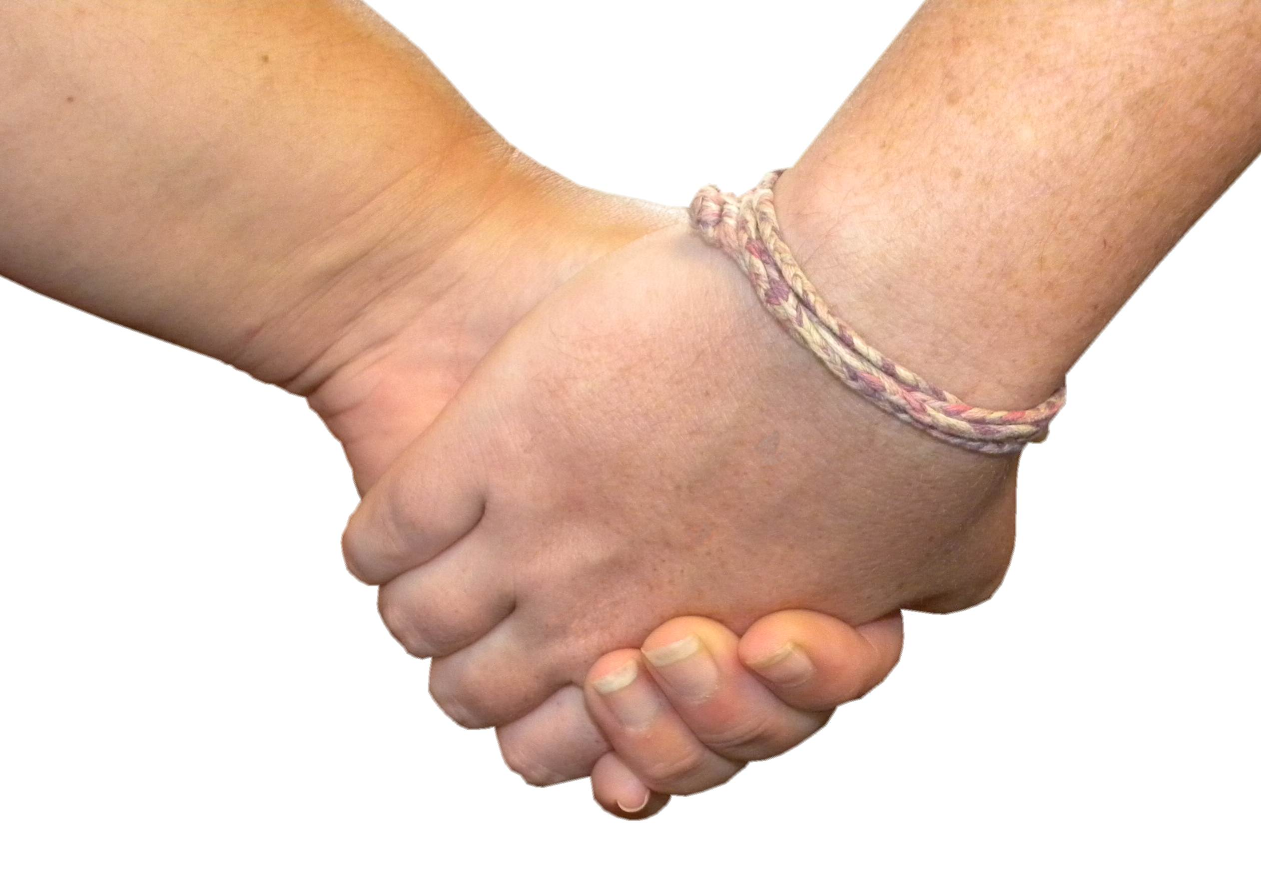 Two hands holding